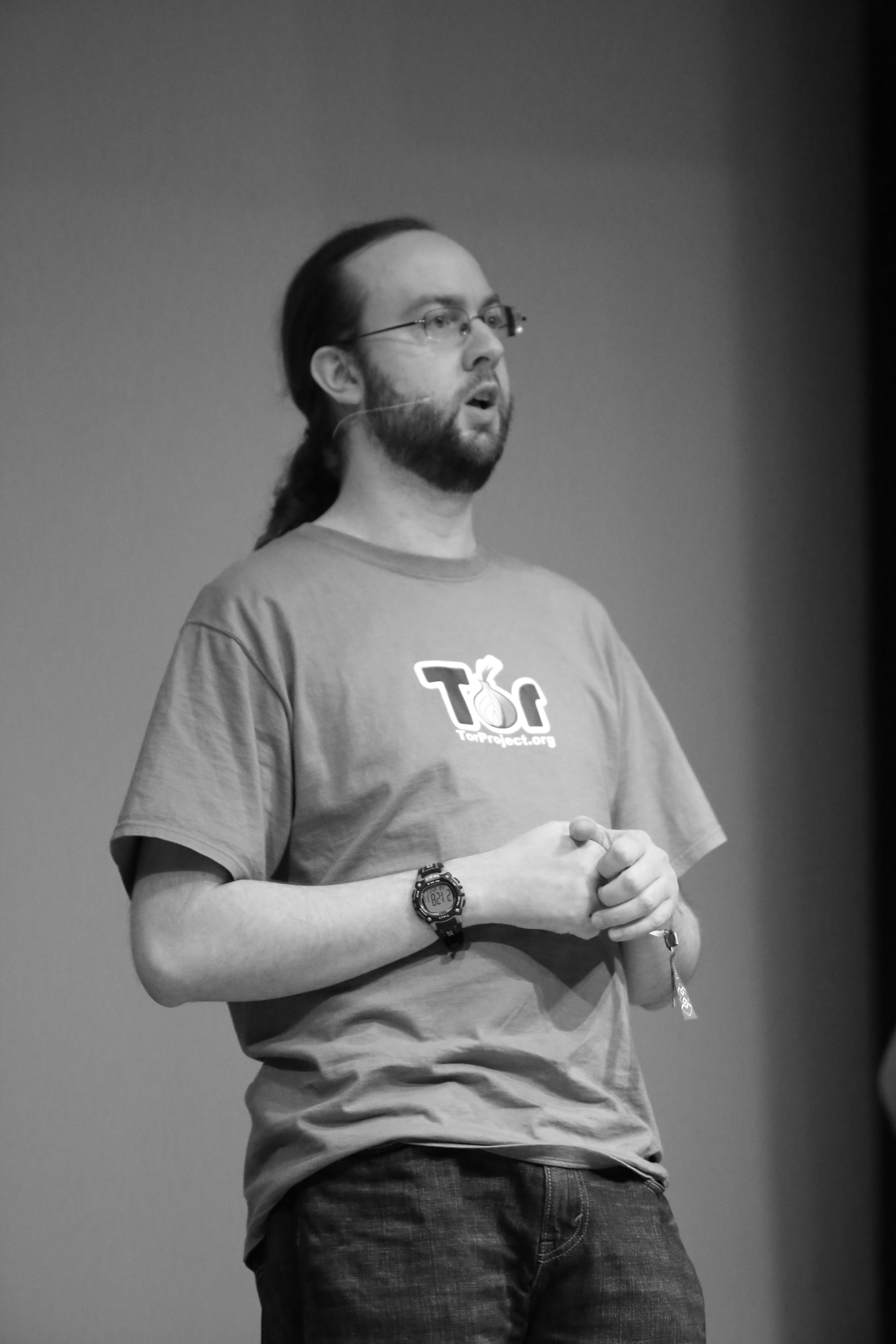 Roger Dingledine at the 30th Chaos Communication Congress in Hamburg, 2013.